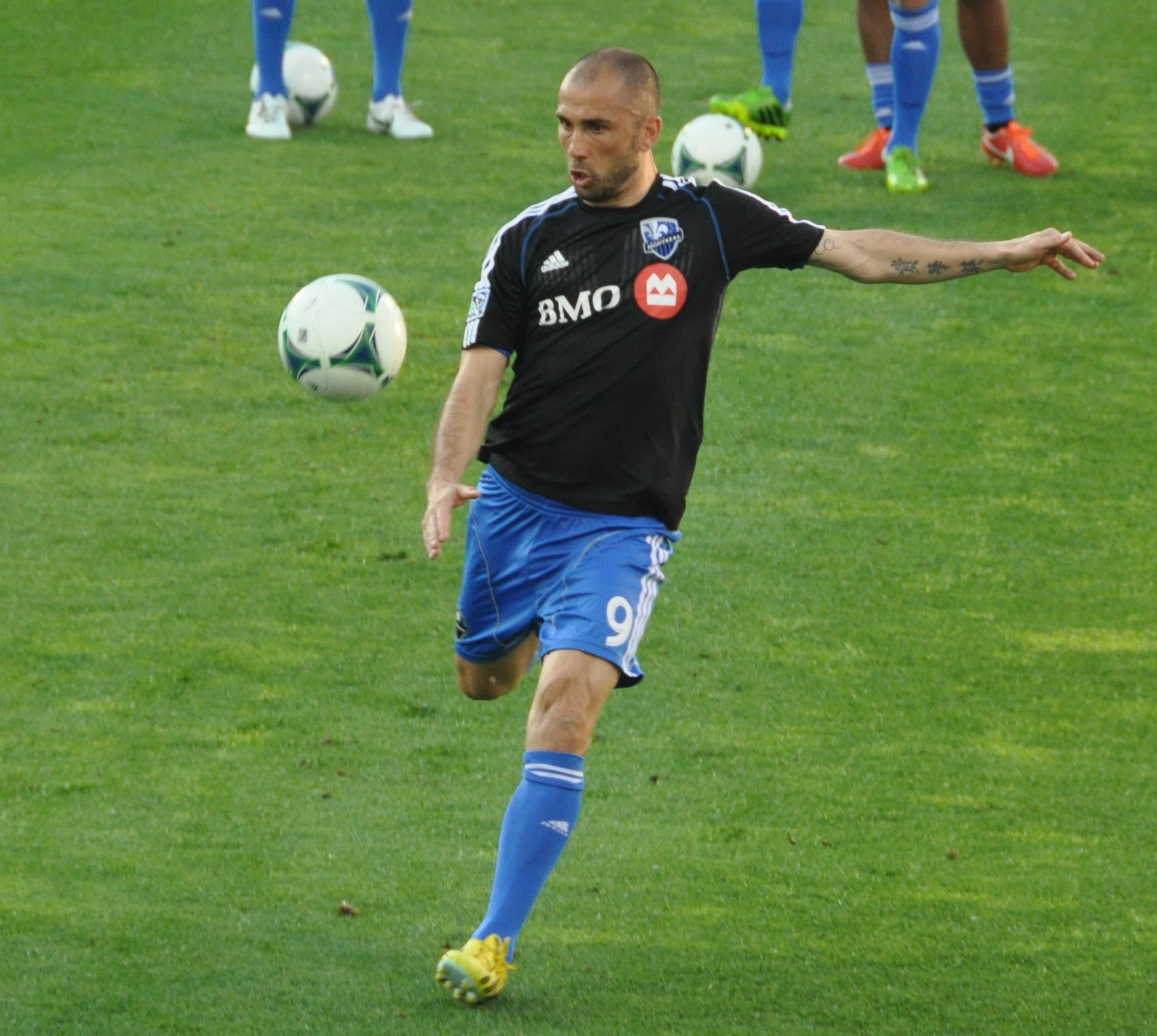 Marco Di Vaio of the Montreal Impact warming up before a Major League Soccer (MLS) game against the Houston Dynamo at Stade Saputo in Montreal, 19 June 2013.